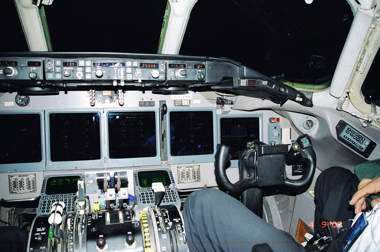 In-flight cockpit photograph for the Saudi Airlines' MD-90 with 717 style glass-cockpit option